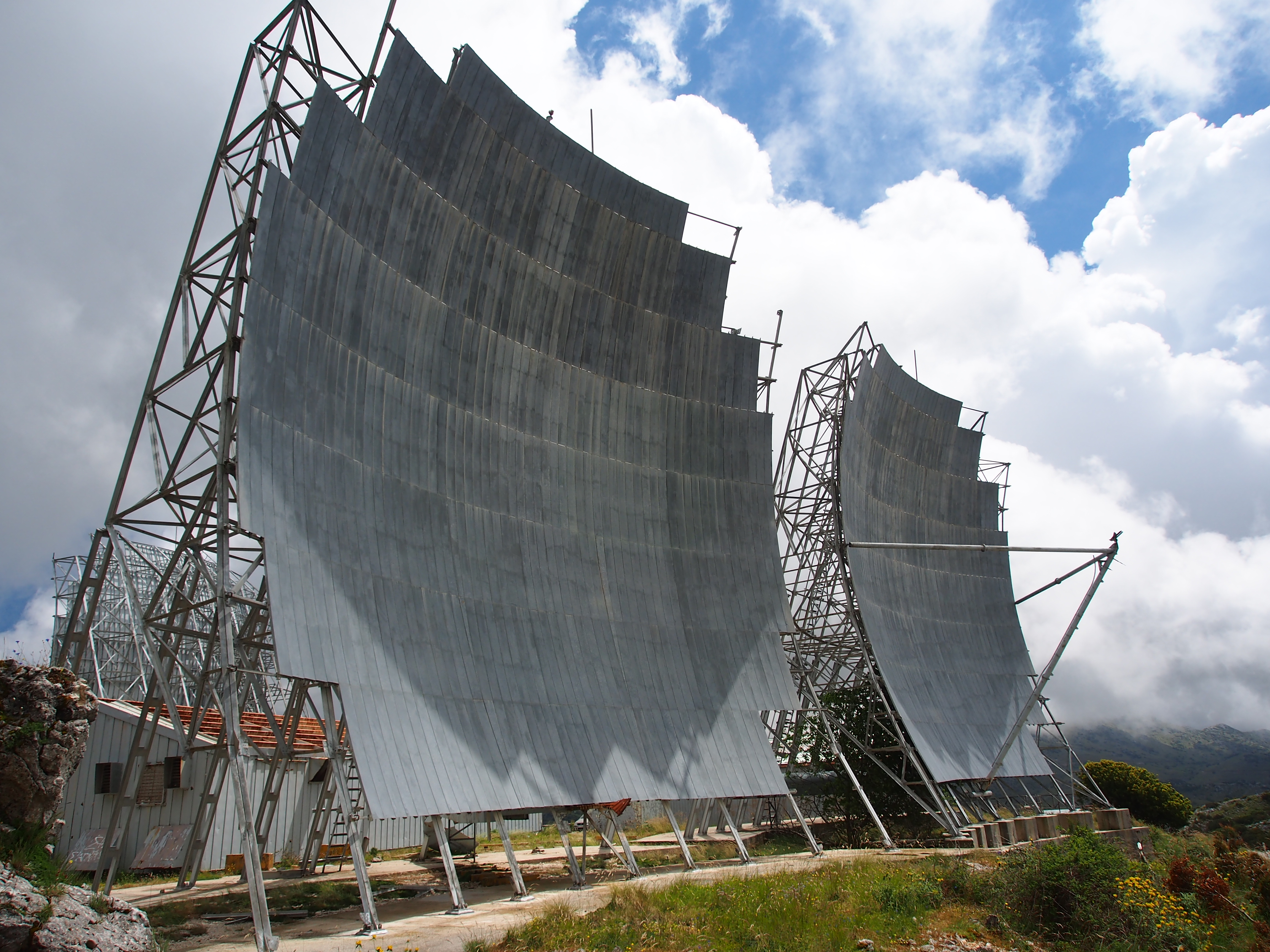 Photographed in Lefkada, Greece.